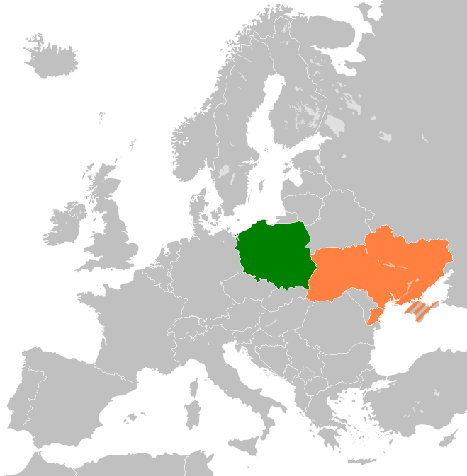 Map of Europe, highlighting Poland and Ukraine, with Crimea shown as disputed territory